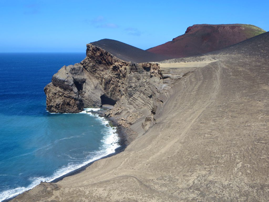 Layers of volcanic tephra formed by the 1957 eruption of Capelinhos volcano on the island of Faial in the Azores.